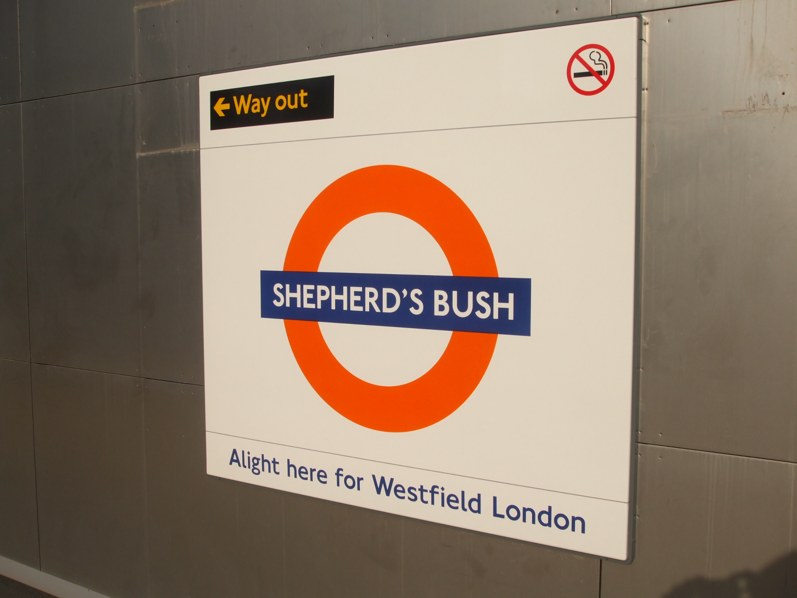 Shepherd's Bush Overground station platform roundel, in Overground orange, indicating proximity to the Westfield shopping centre